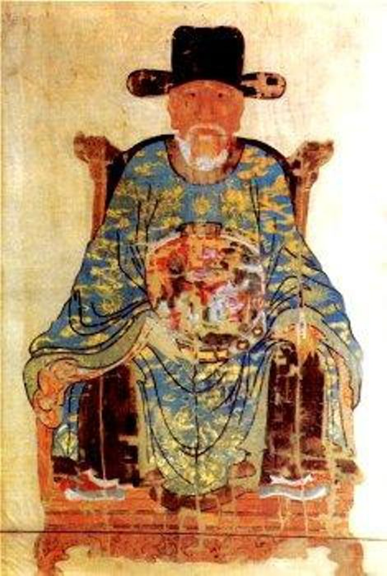 Nguyen Trai